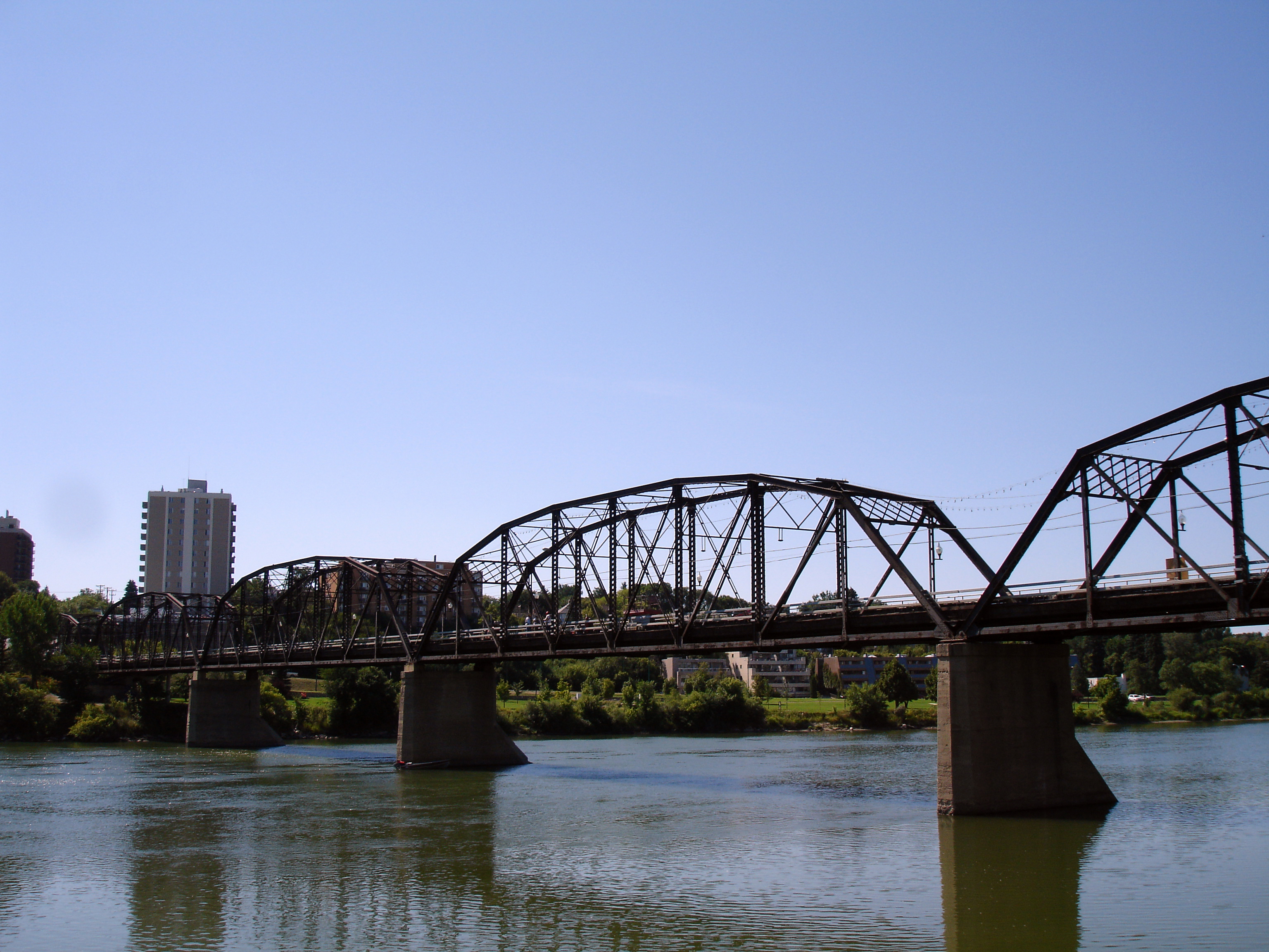 Traffic (Victoria) Bridge, Saskatoon, Saskatchewan, Canada